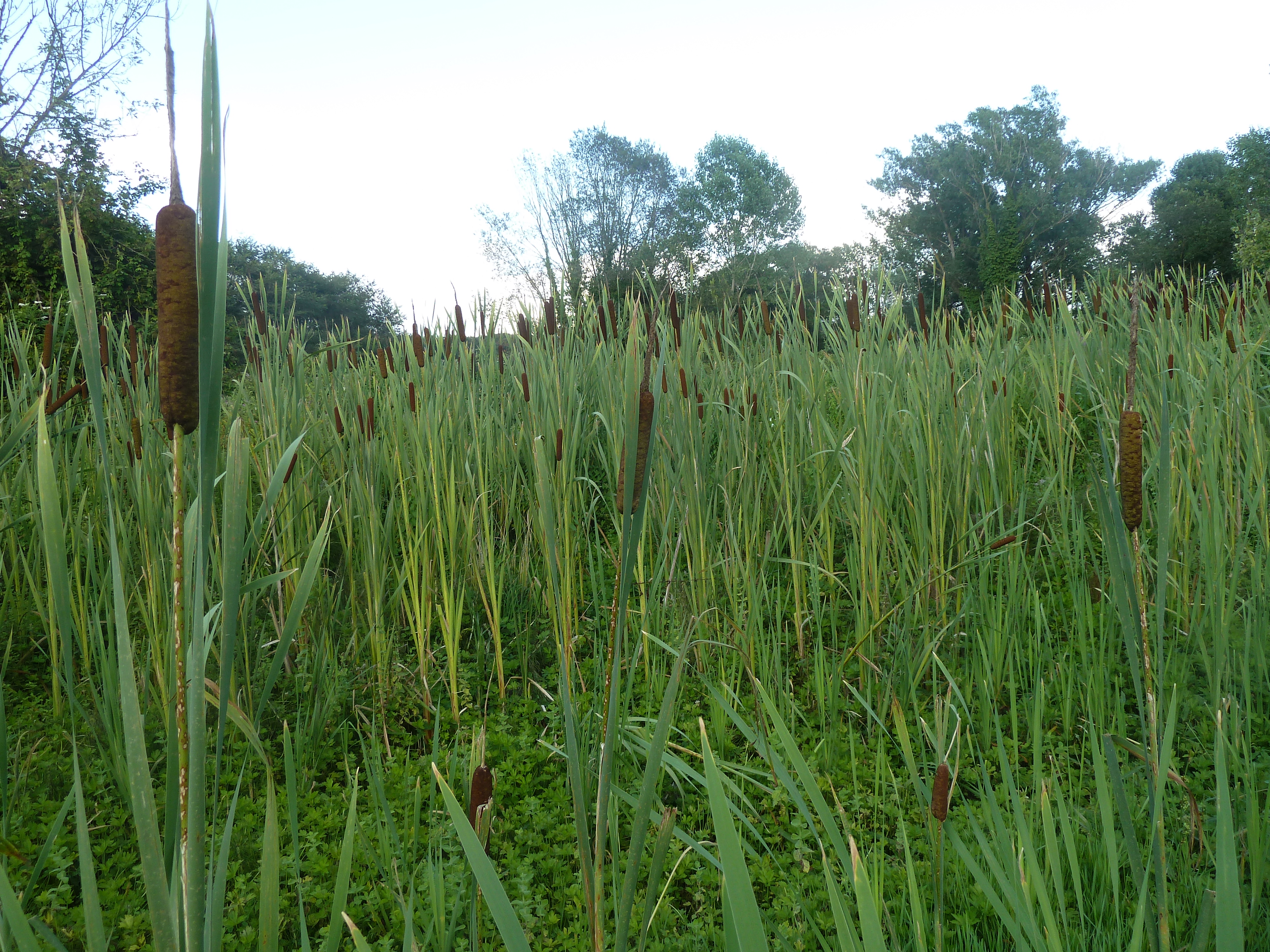 Flora. Parco della Caffarella, Rome, Italy. July - Typha latifolia